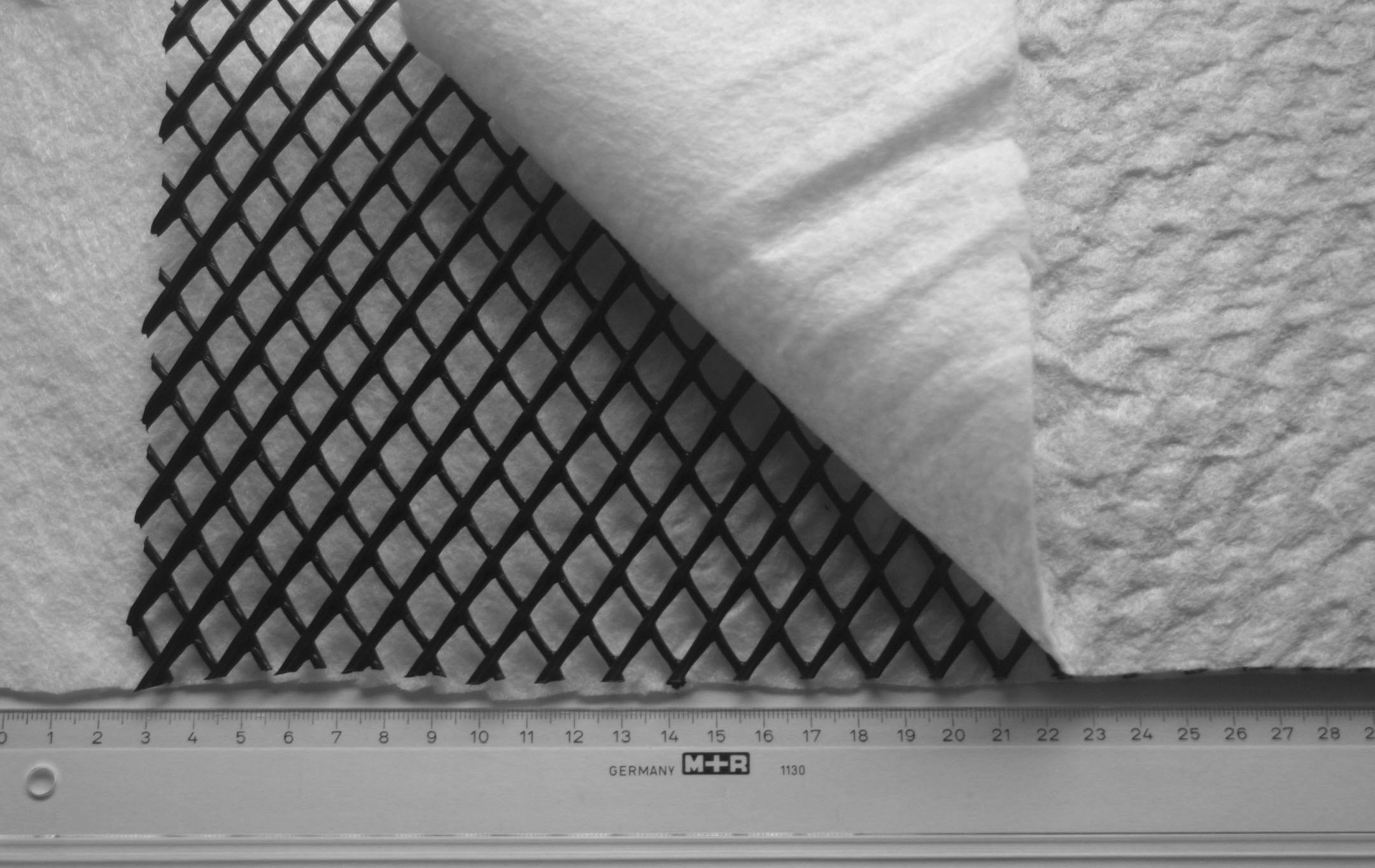 Geocomposite drain consisting of needle-punched nonwoven filter and carrier geotextiles of polypropylene staple fibers each having a mass per area of 200 g/m². A biplanar HDPE geonet with mass per area of about 900 g/m² was used as drain core.